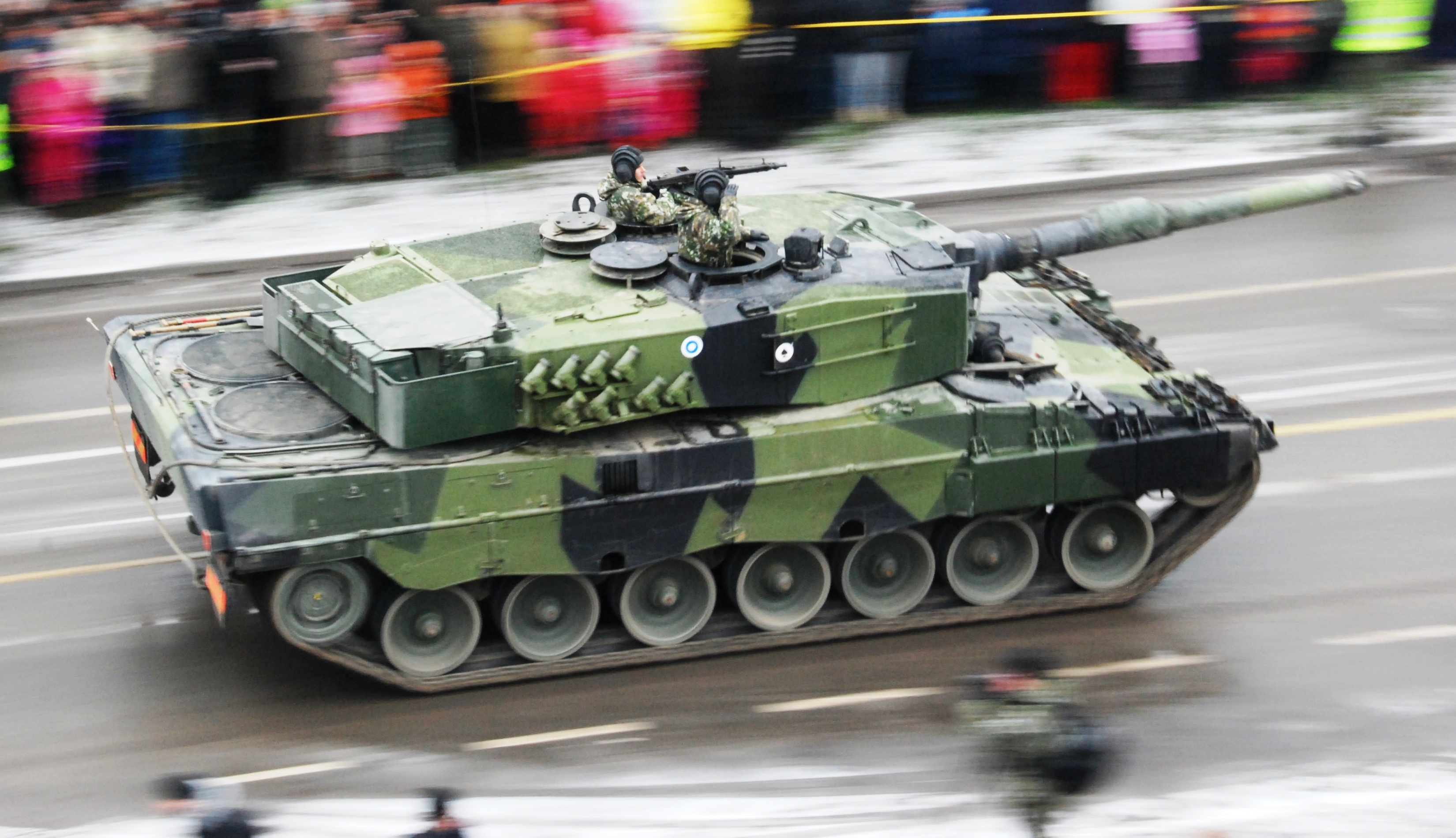 Krauss-Maffei-Wegmann Leopard 2A4 main battle tank of Armoured Brigade at finnish independence day parade, Riihimäki, Finland.